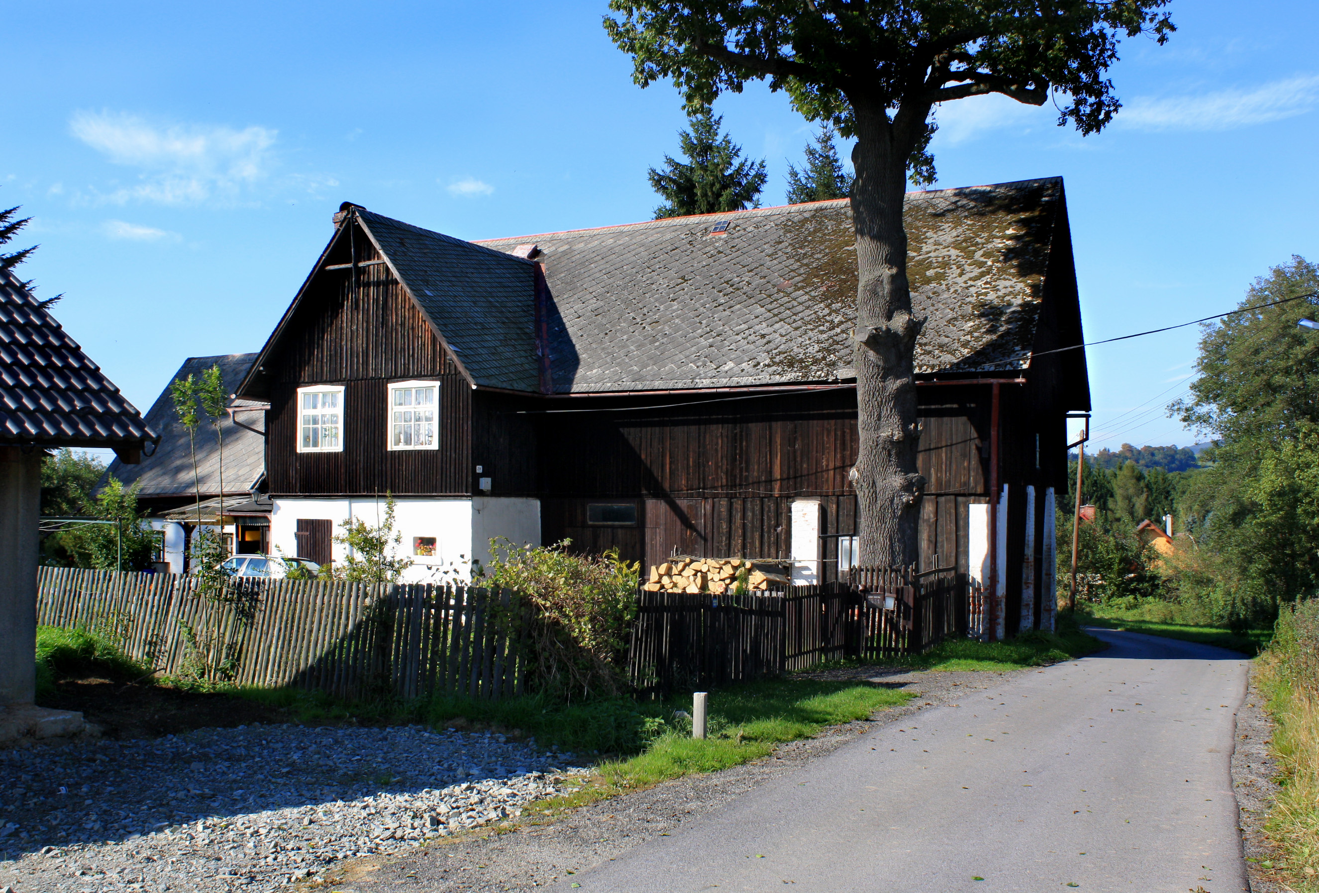 Small house in Víska, part of Chrastava, Czech Republic